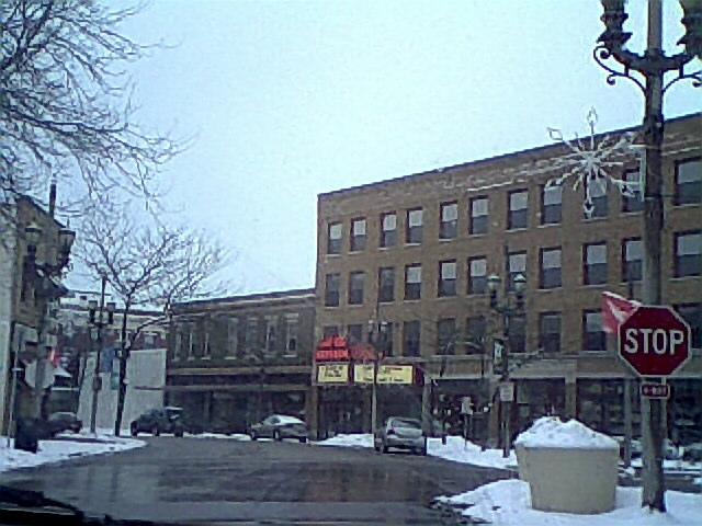 6th Ave. Downtown Kenosha with the former Orpheum Theatre in view